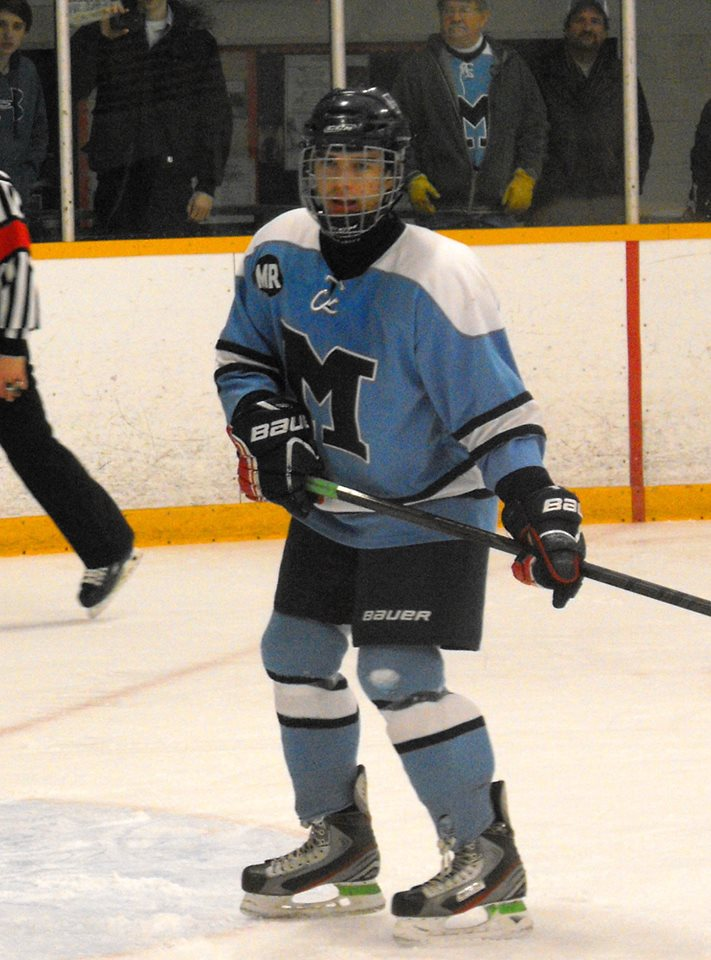 This photo was taken by Devan Mighton during the 2013-14 WECSSAA season.